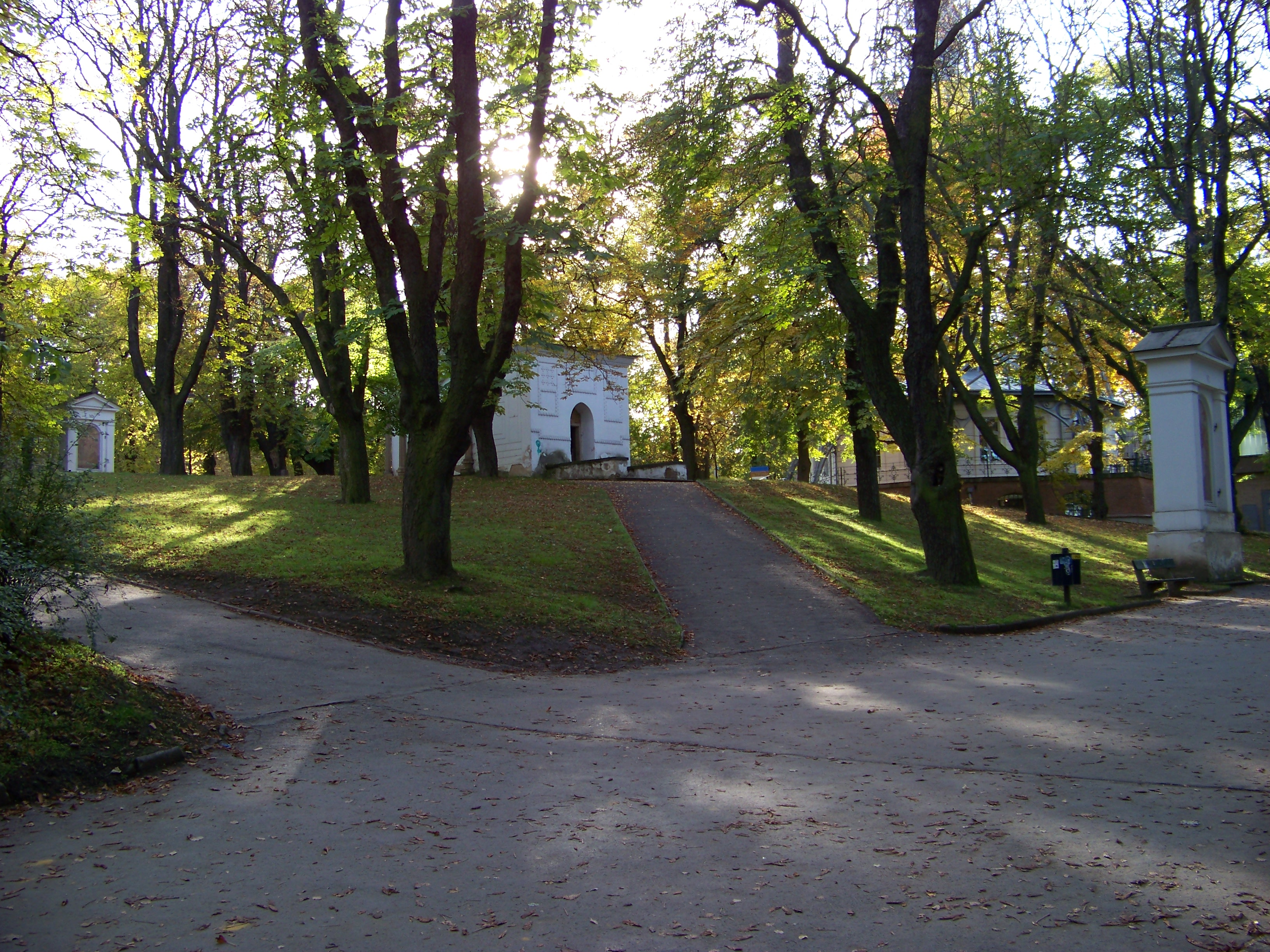 Prague-Malá Strana, the Czech Republic. Petřín hill, Petřín Park, Stations of the Cross stations VI and XIV and Holy Sepulchre chapel.